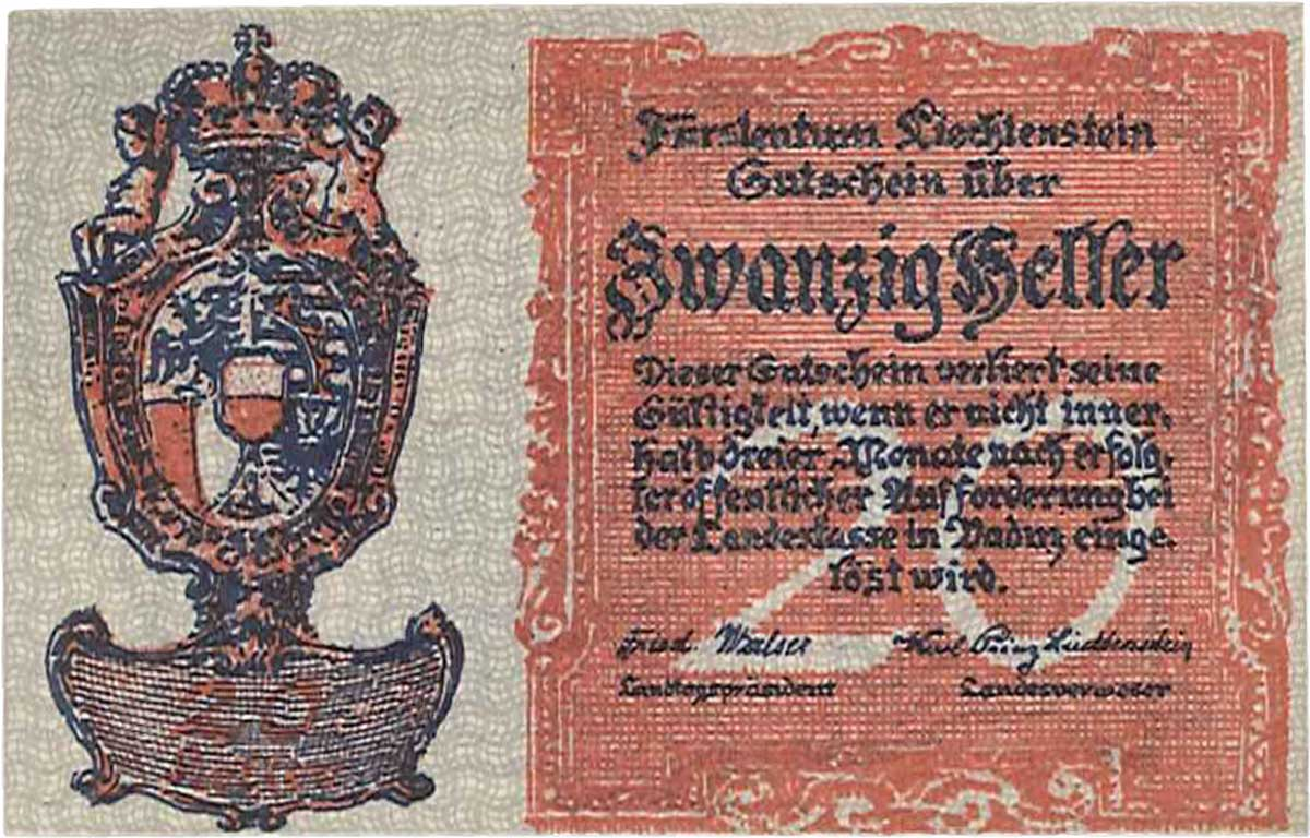 20 heller du Liechtenstein, 1920